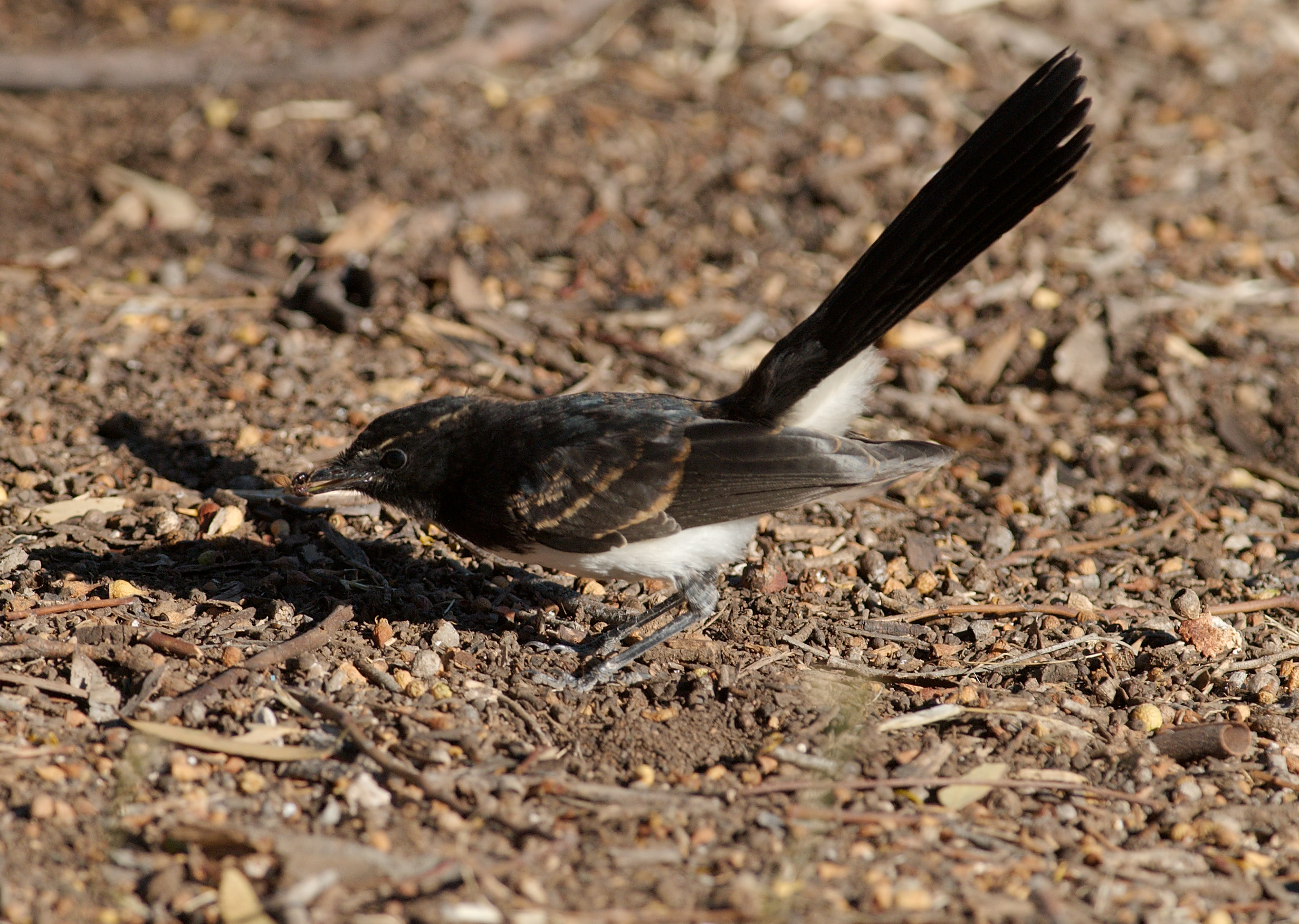 Rhipidura leucophrys - Juvenile Willie Wagtail feeding - Ingle Farm, South Australia